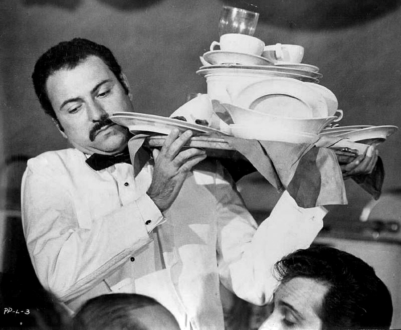 Original publicity photo of Alan Arkin for film Popi (1969)